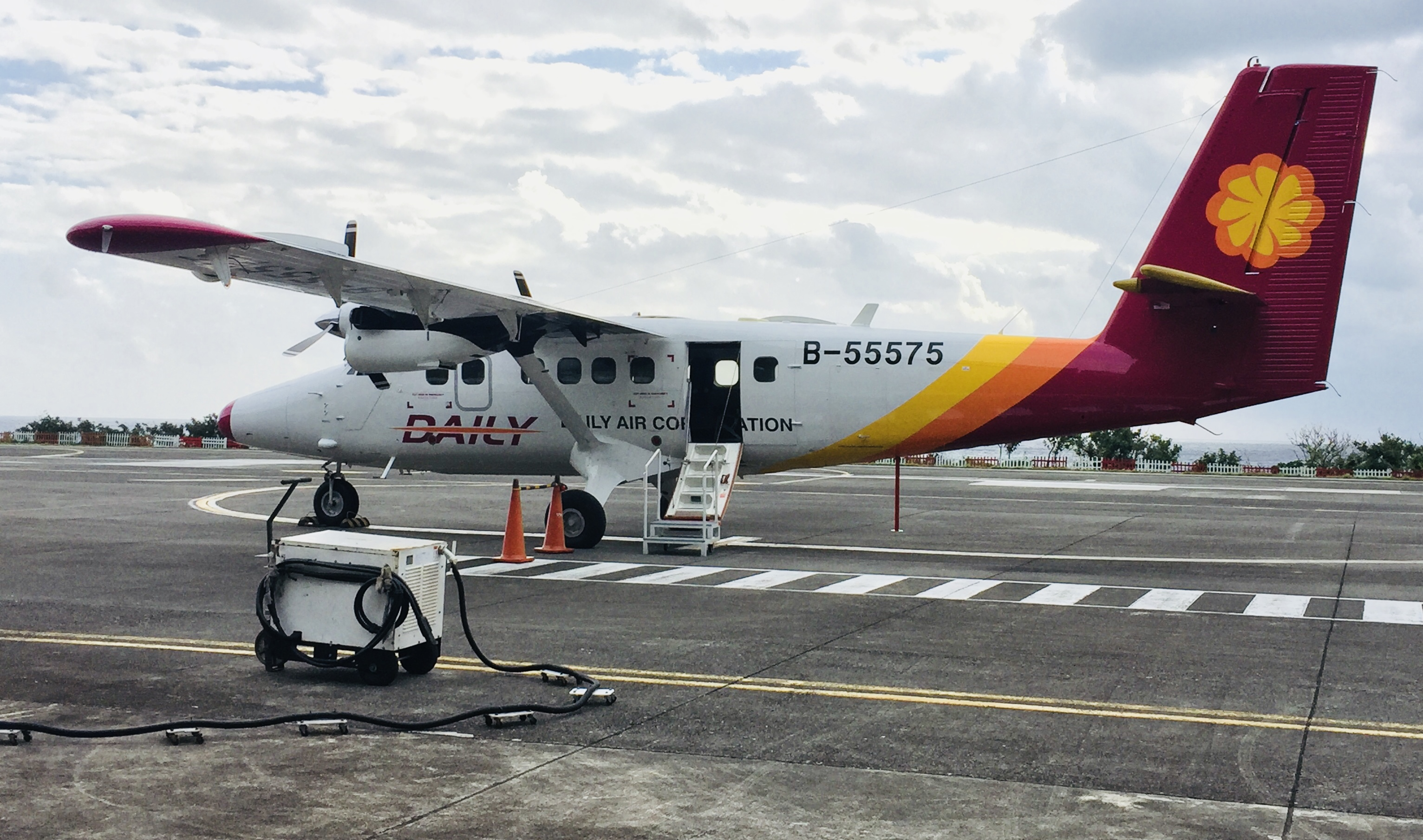 Daily Air aircraft landed at Lanyu airport